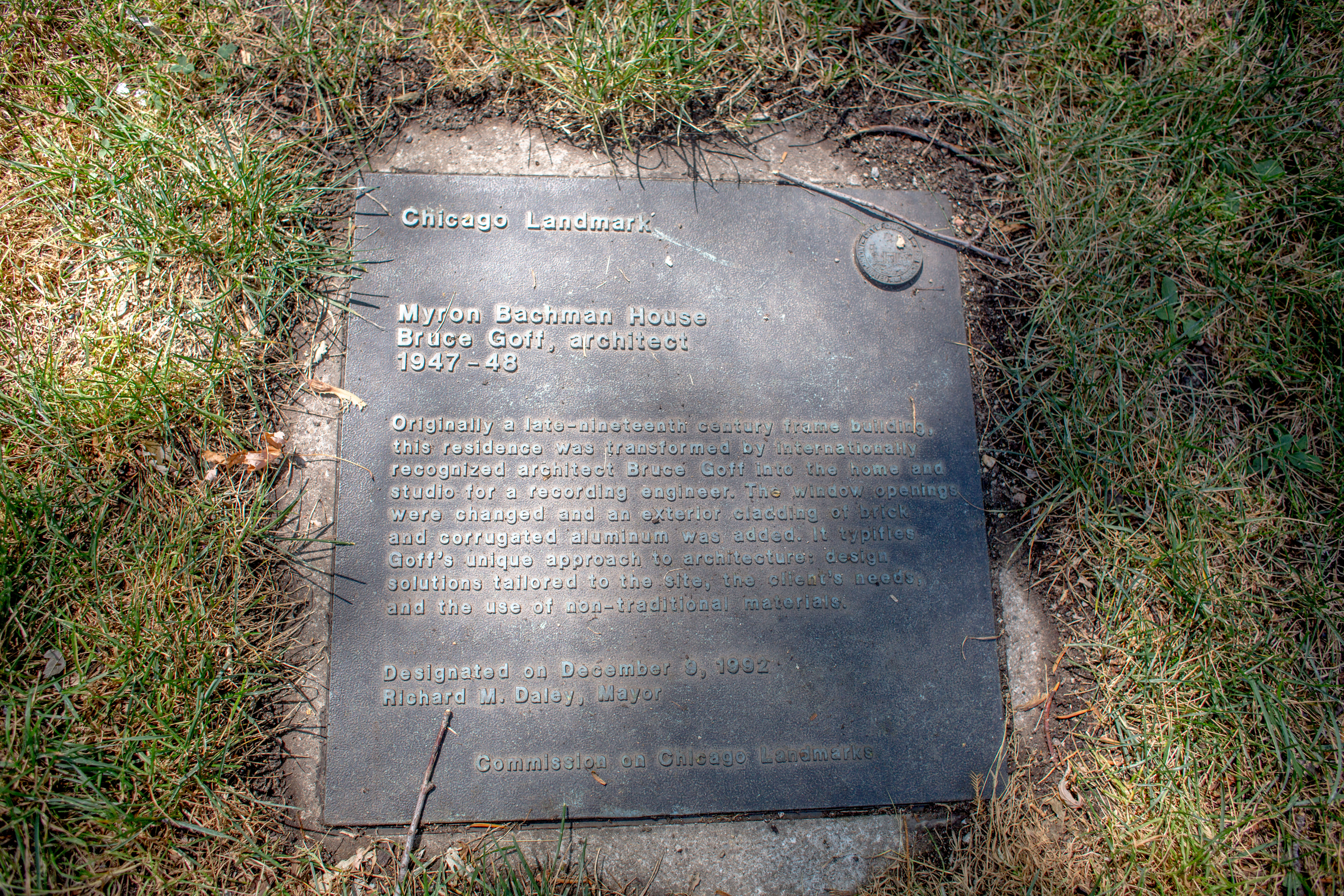 Myron Bachman House, Chicago 2015